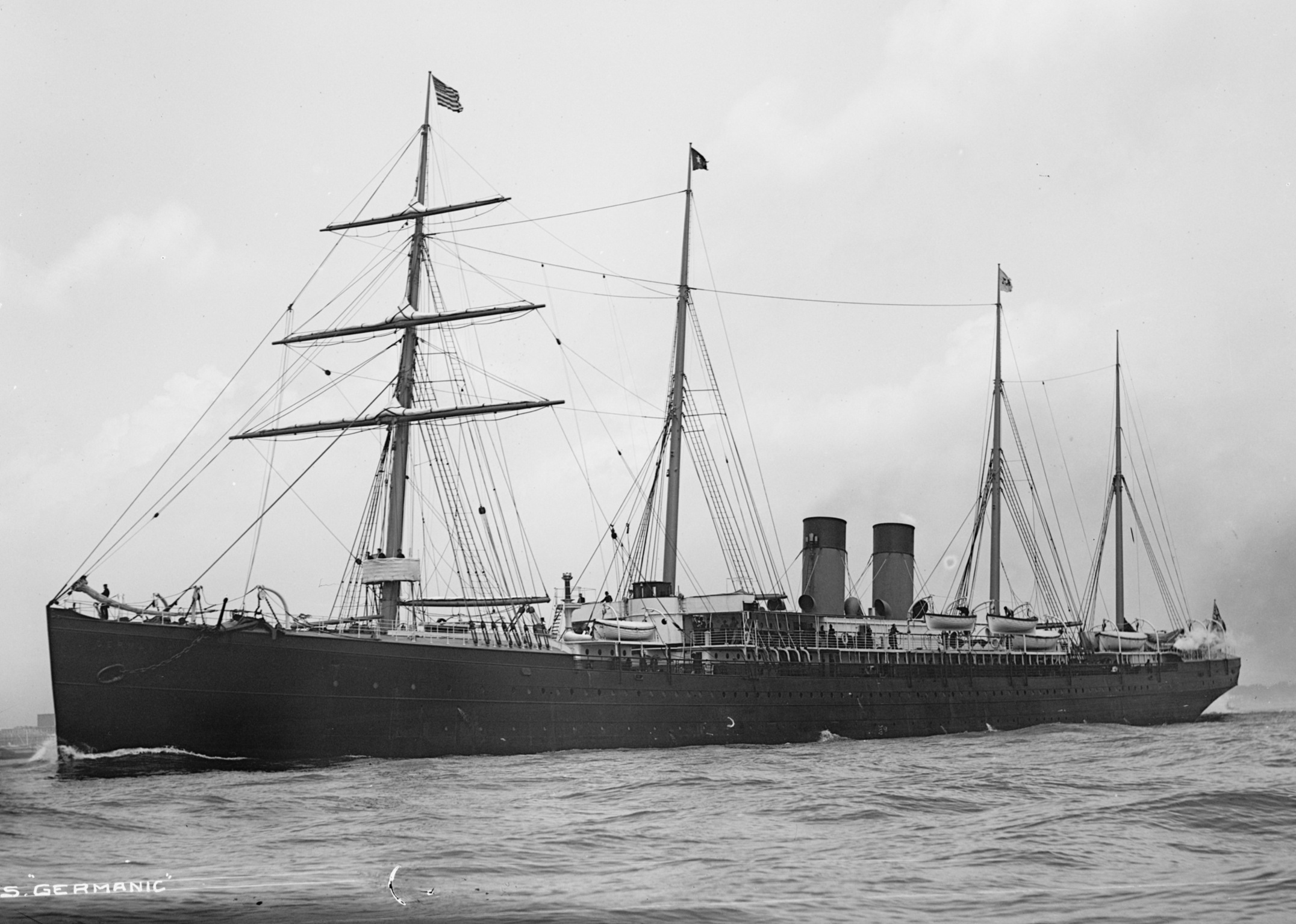 The White Star Liner SS Germanic, between 1890 and 1900